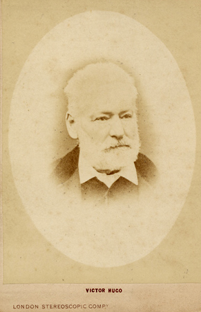 Victor Hugo